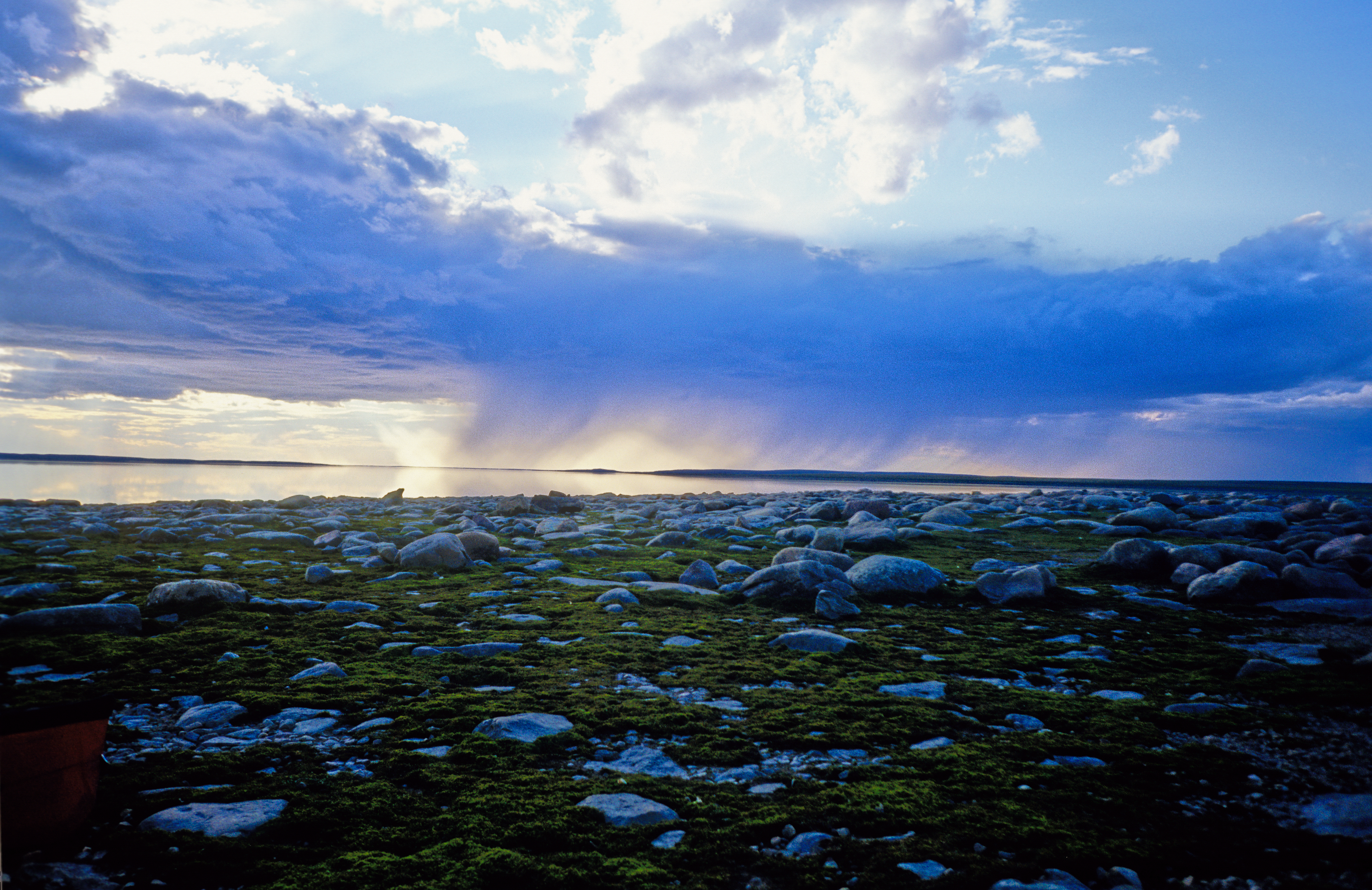 A view on the Garry Lake in August 2006.